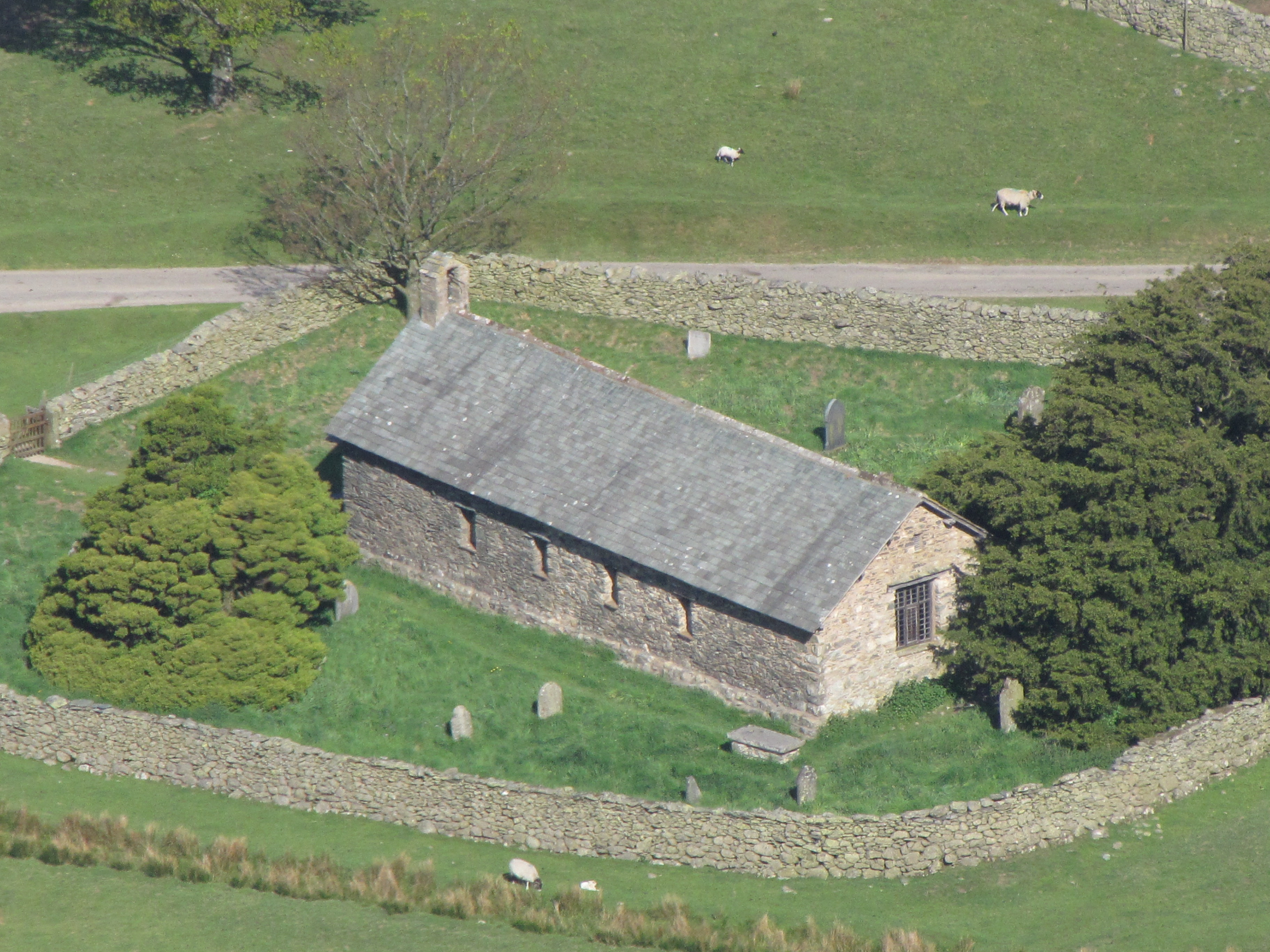 St Martin's parish church, Martindale, Cumbria, seen from the southeast from the fell of Steel Knotts.